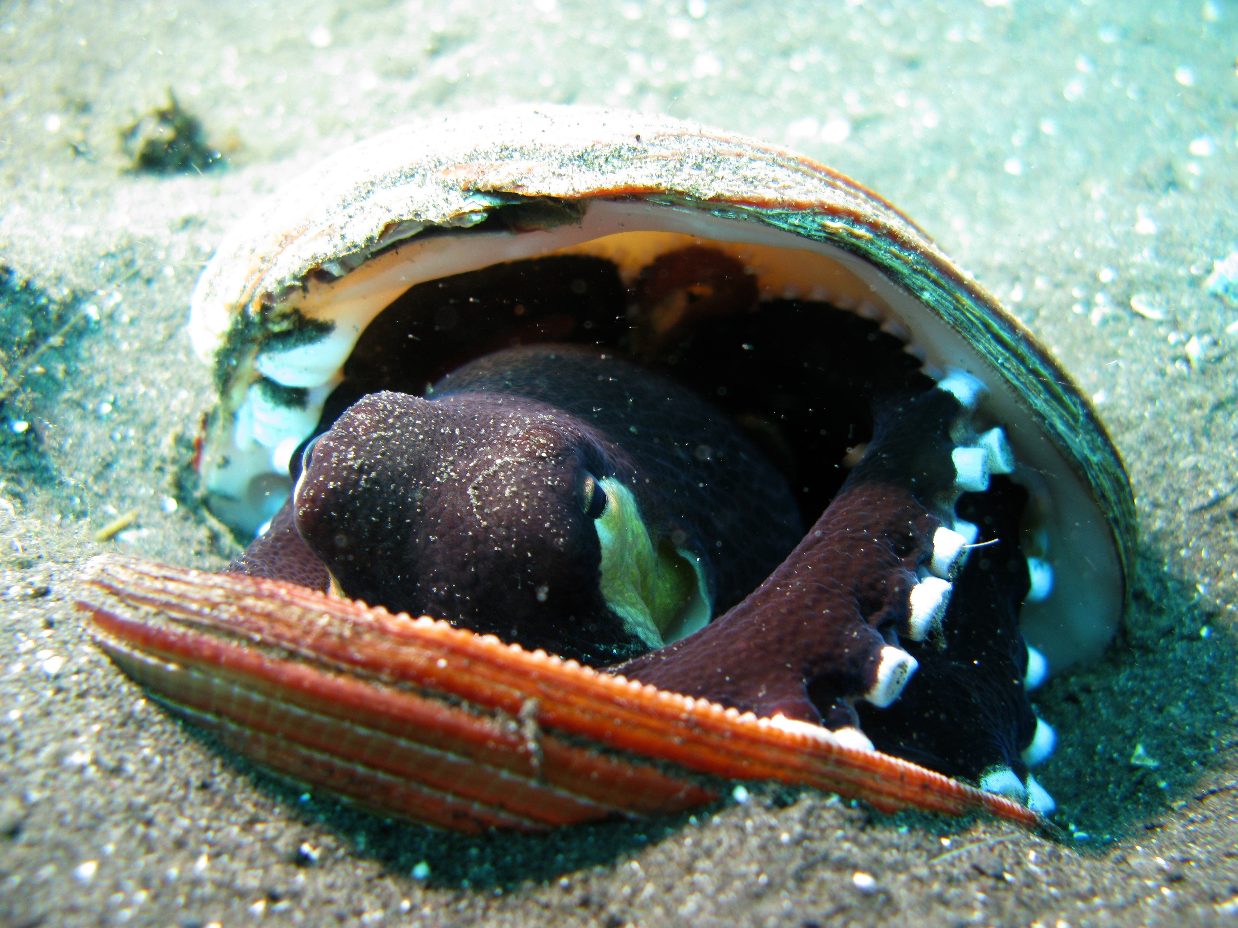 Veined Octopus - Amphioctopus marginatus